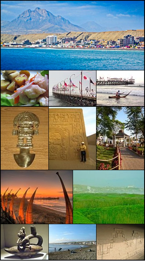 PhotomontageHuanchaco